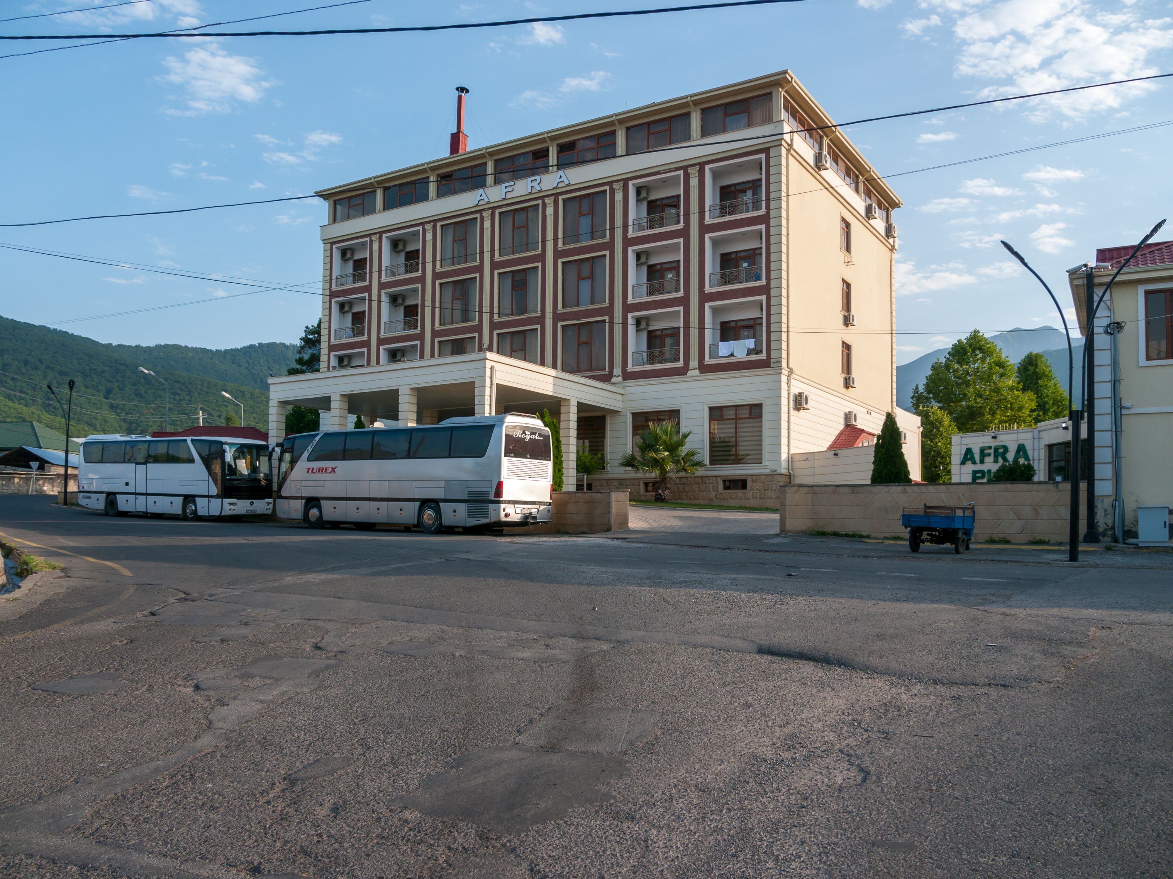 Afra Hotel, Oghuz, Azerbaijan